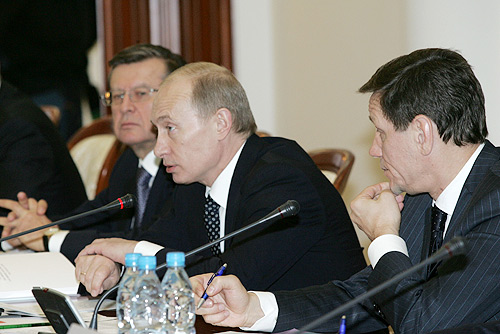 SOCHI. At the session of the Council for the Development of Physical Culture and Sport, Excellence in Sports, and the Preparation and Execution of the 2014 XXII Olympic Winter Games and XI Paralympic Winter Games in Sochi. With Prime Minister Viktor Zubkov (left) and Deputy Prime Minister Aleksandr Zhukov.